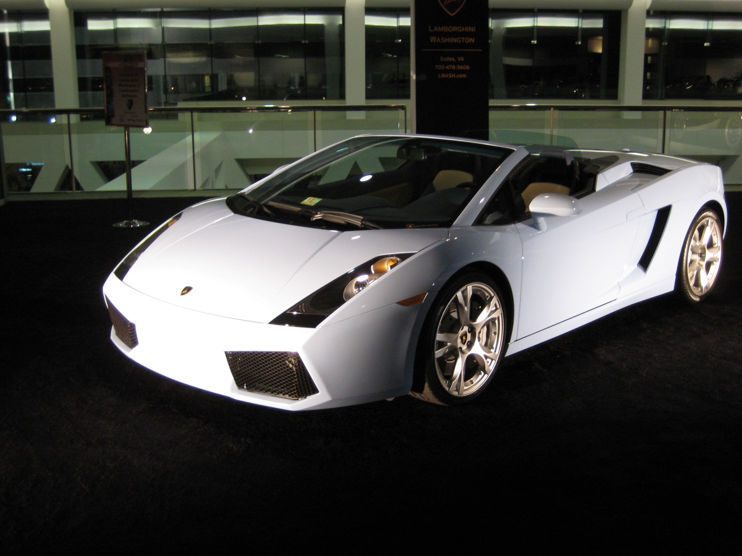 Lamborghini Gallardo Spyder.